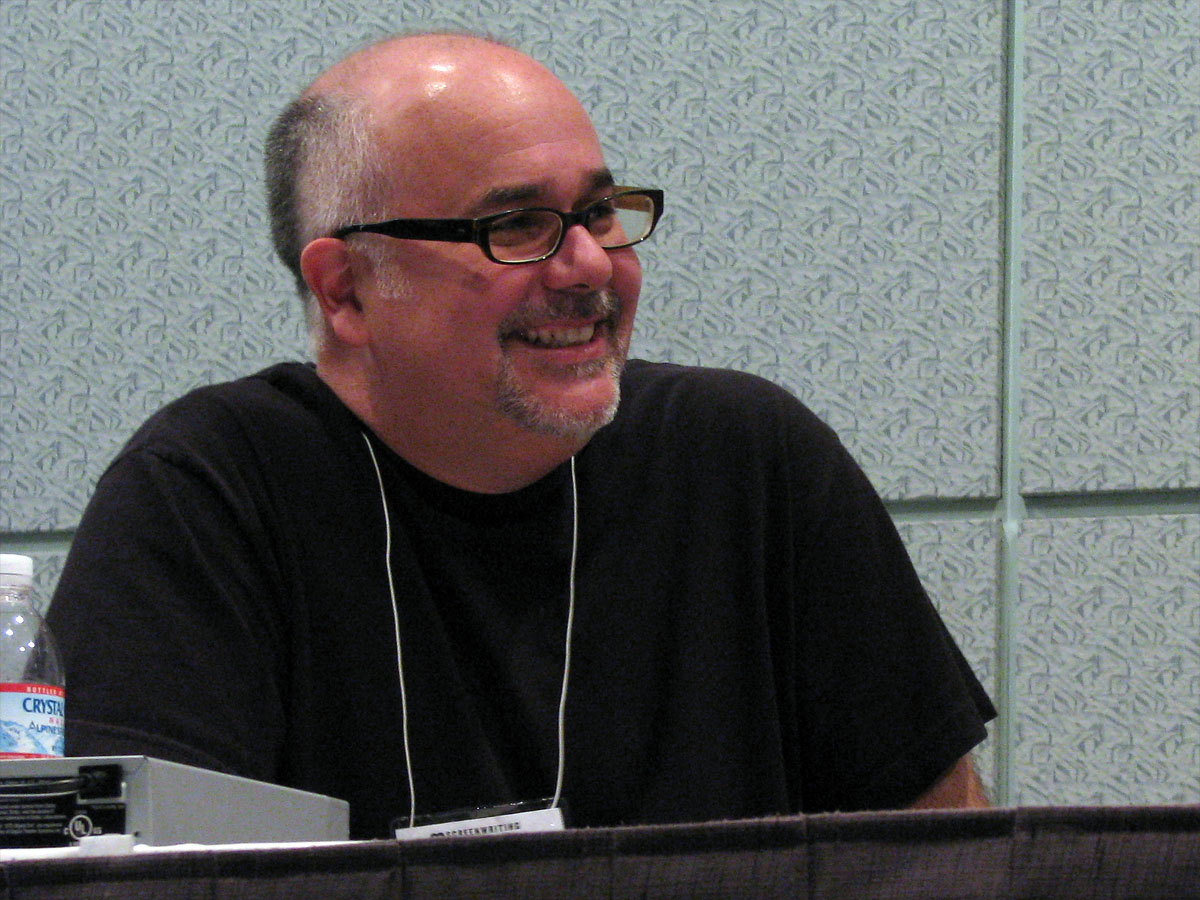 The Batman staff writer Duane Capizzi The animation panel was the first free panel of the day and immediately preceded the first Lost panel.